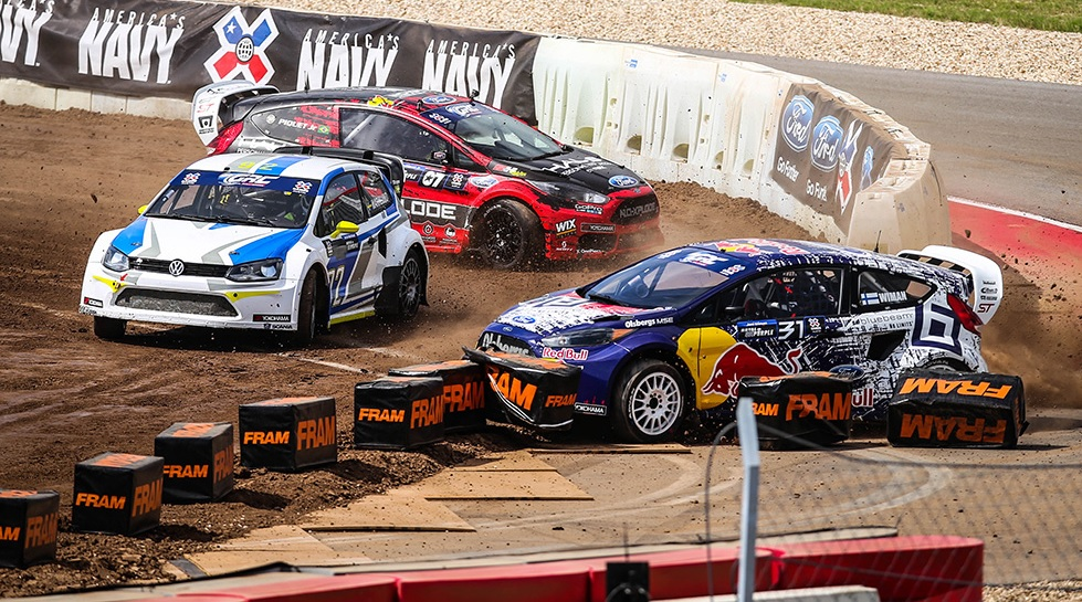 Joni Wiman (Red Bull Ford Fiesta) goes off track, followed by Toomas Heikkinen (VW Polo) and Nelson Piquet, Jr. (Ford) at Circuit of the Americas, Austin, Texas. X Games XX and Round 2 of the 2014 Global RallyCross Championship.